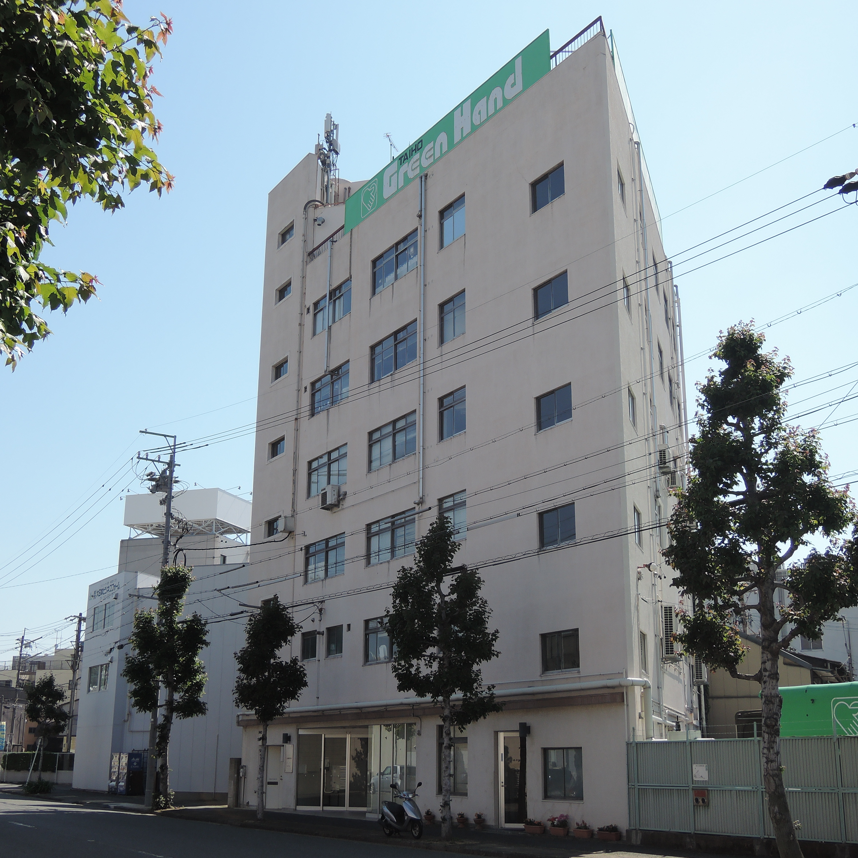 Headquarters of Taiho Transportation Co., Ltd.,Aichi prefecture,Japan